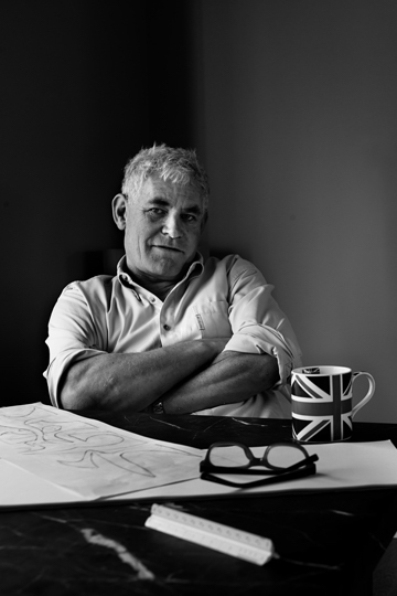 Hubert Phipps Portrait